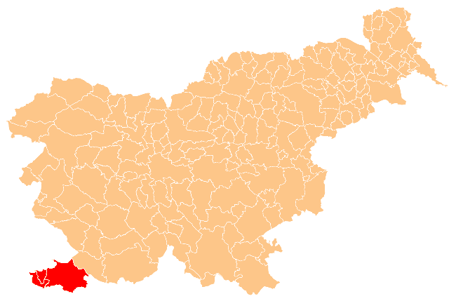 The areas in Slovenia where Italian is co-official.